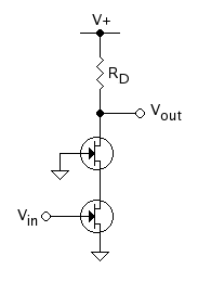 NMOS cascode amplifier. Created with Klunky.